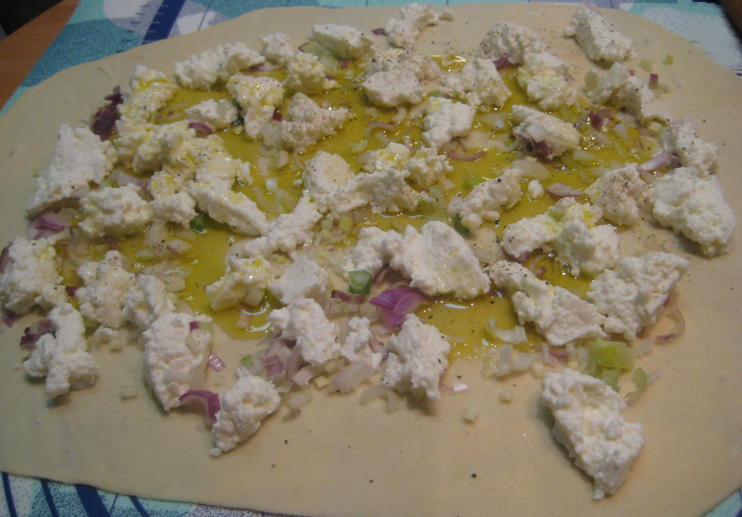 Typical Sicilian food.